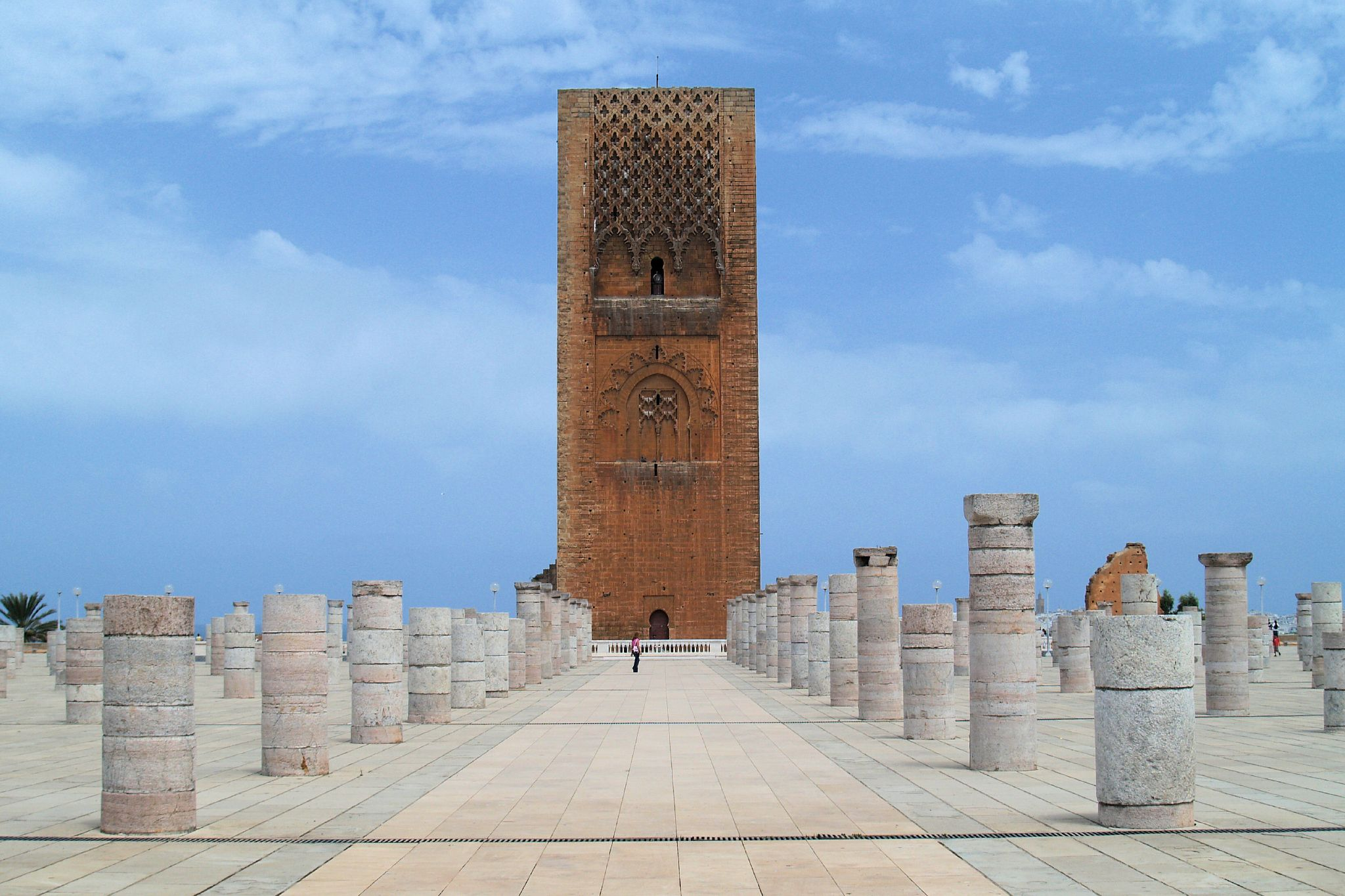 Hassan Tower in Rabat (Morocco).